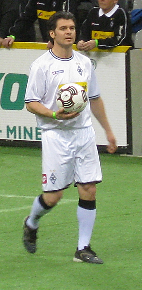 Germany, Bonn, Telekom-Dome: Karlheinz „Kalla“ Pflipsen (former german Bundesliga professional soccer player) during a tournament as player of the Borussia Mönchengladbach-traditional team.